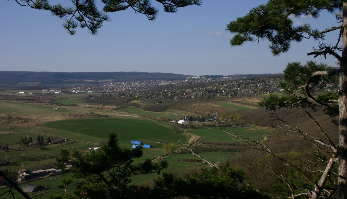 View of Budakeszi Basin from Csíki Hills (part of Buda Hills), Budakeszi in the background